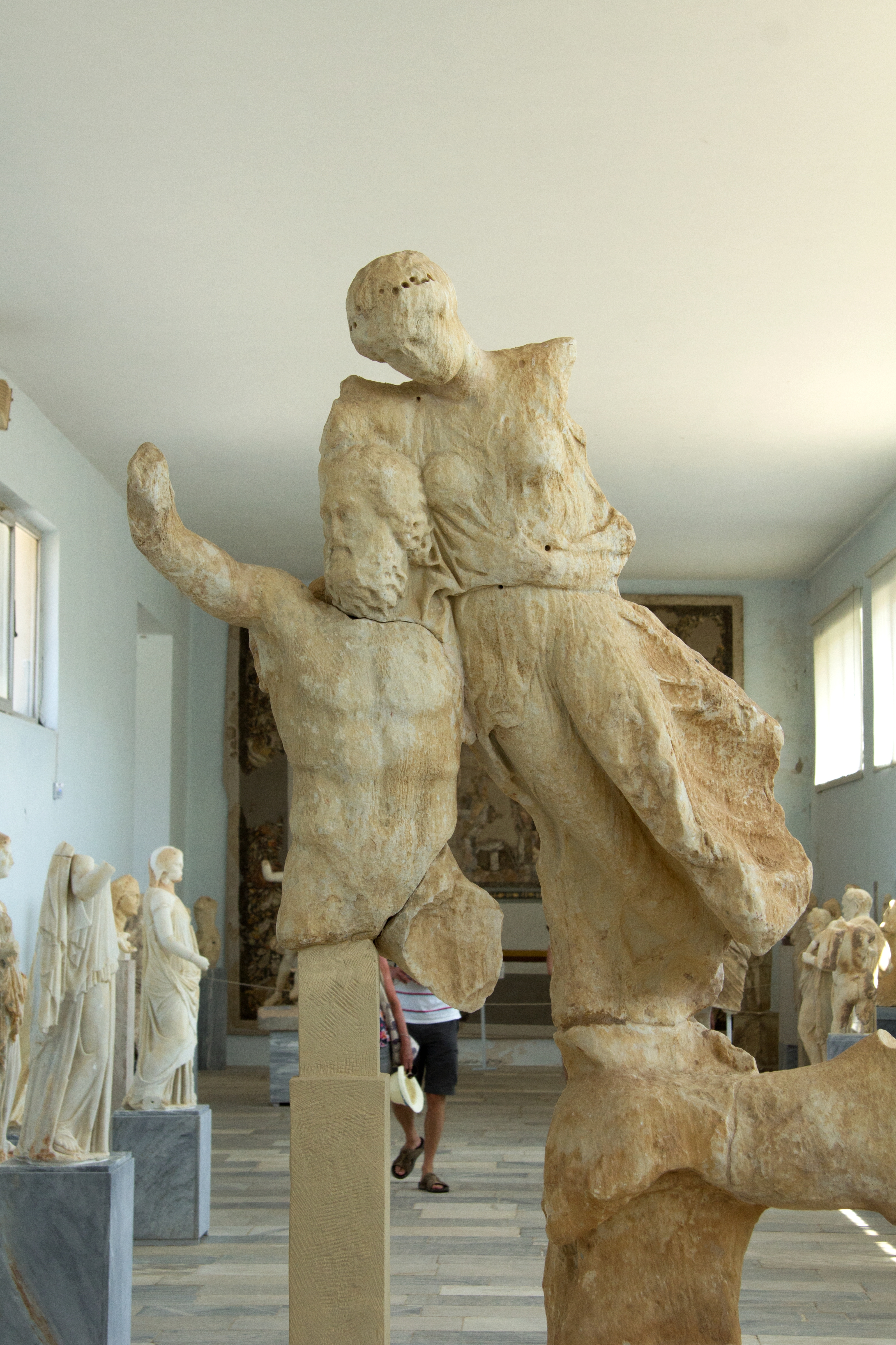 Boreas, the north wind and the Thracian ruler, kidnaps the princess of Athens Oreithya, daughter Orechtheon. Central akroterion from the east side of the Athenians Temple of Apollo on Delos. Athenians classic work, marble, 421-417 BC. Museum of Delos, A 04287, A 4279, A 4280.